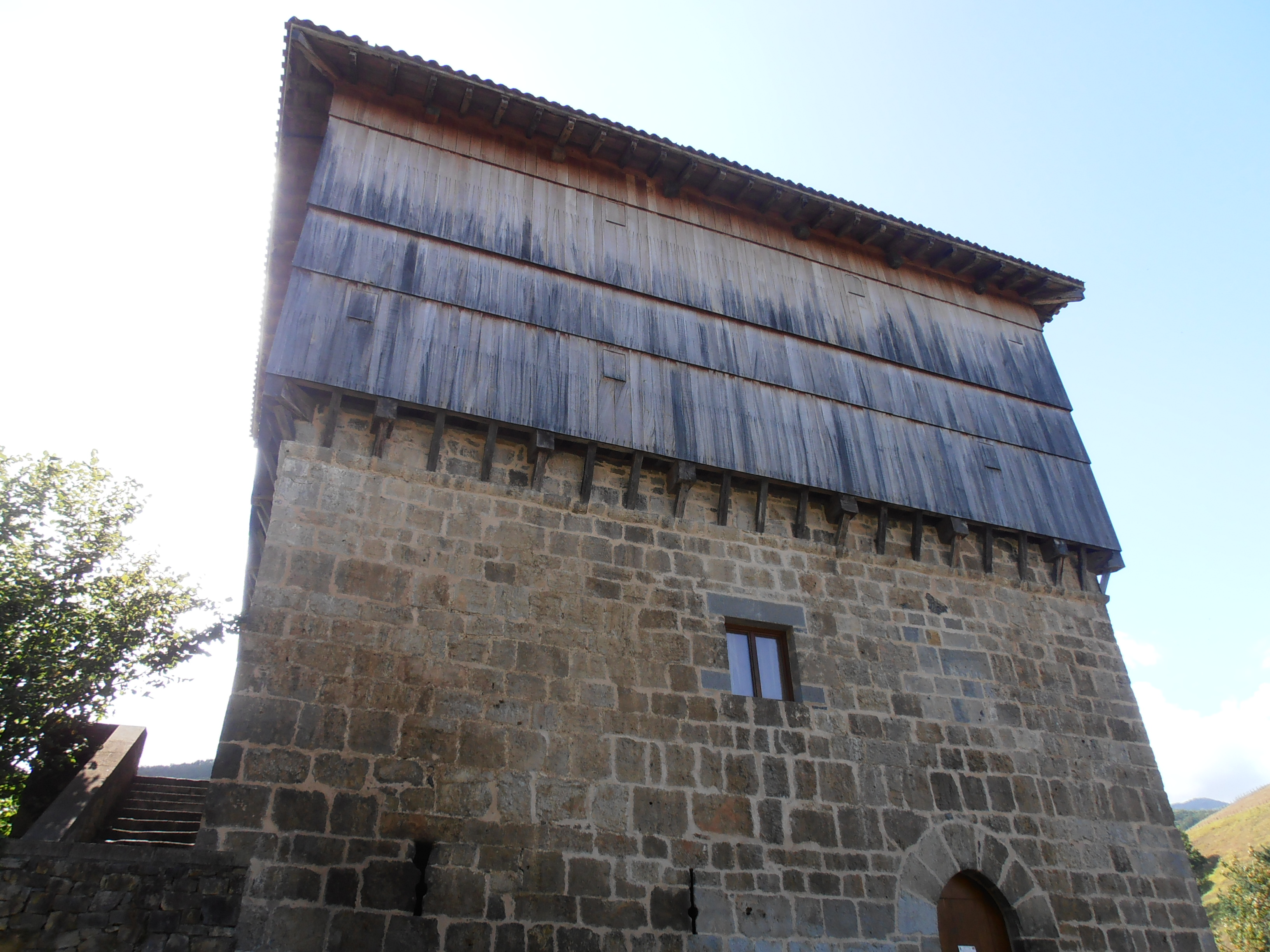 Jaureguia Tower in Donamaria (Navarra, Spain)